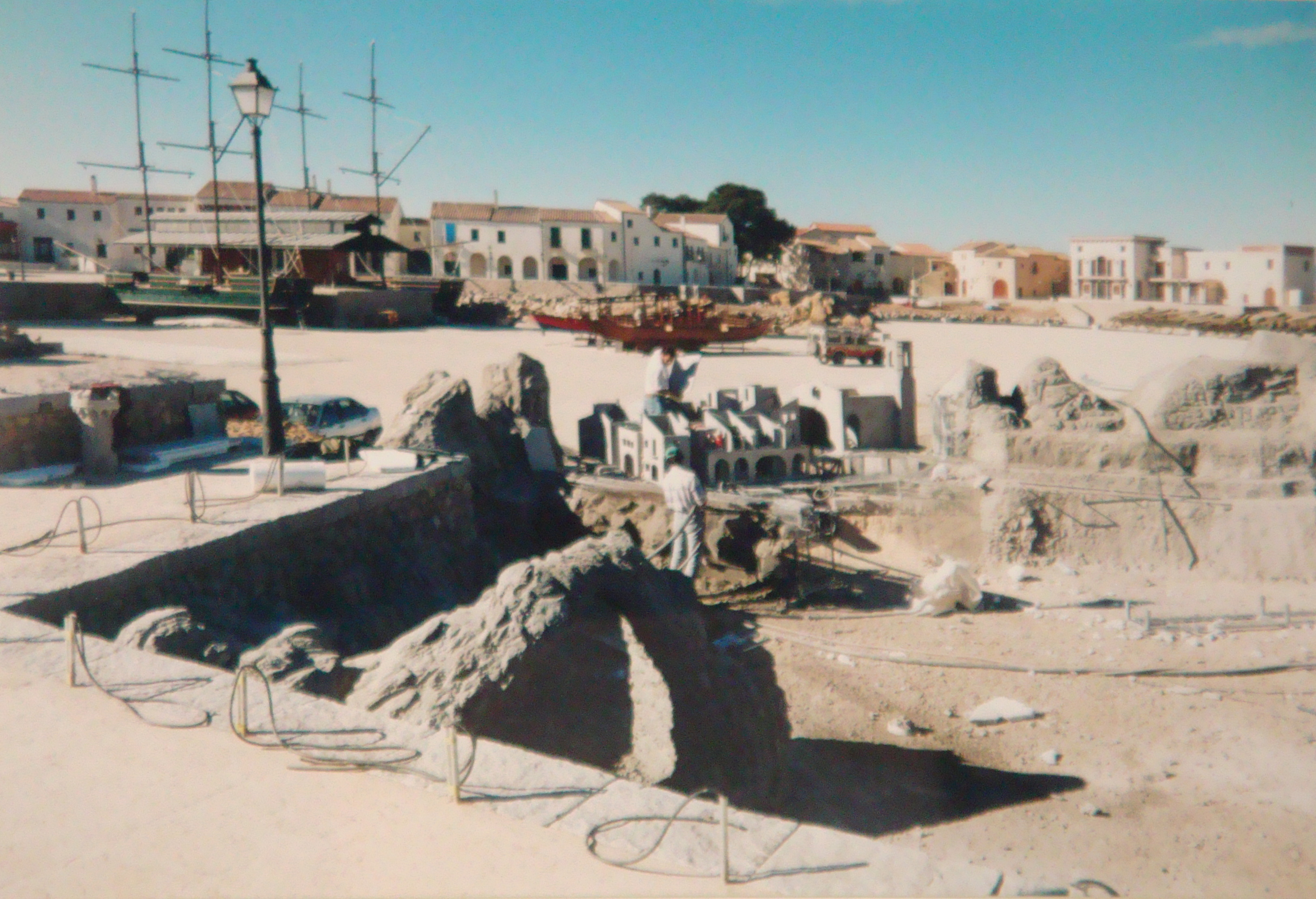 Building of Port Aventura.